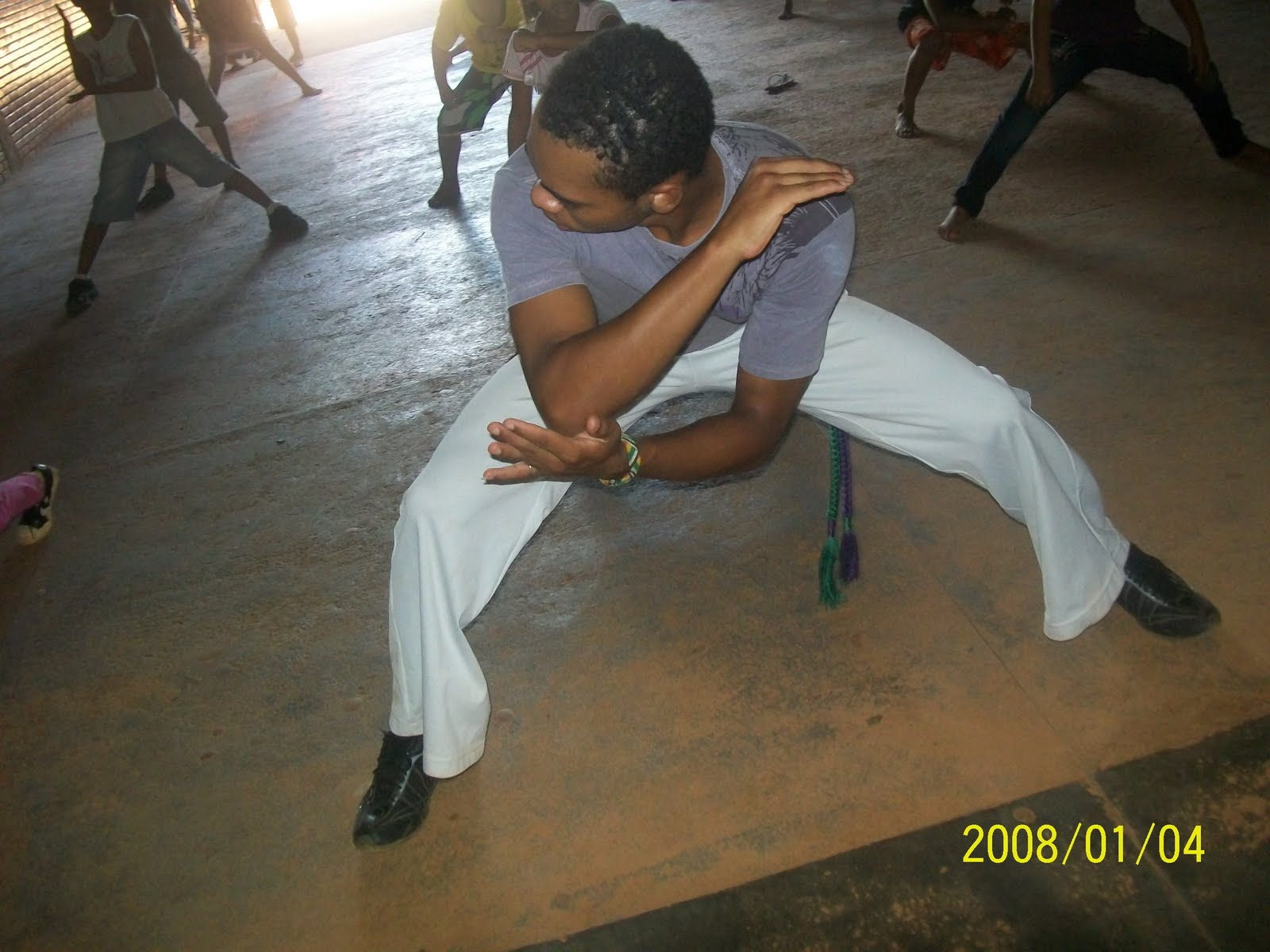 Capoeira stance